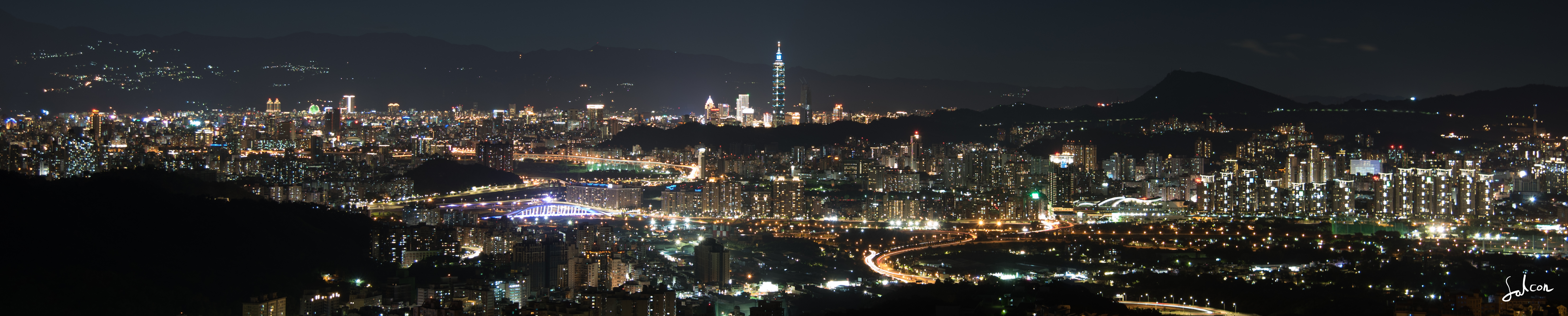 Taipei, Taiwan night cityscape panorama in 2016